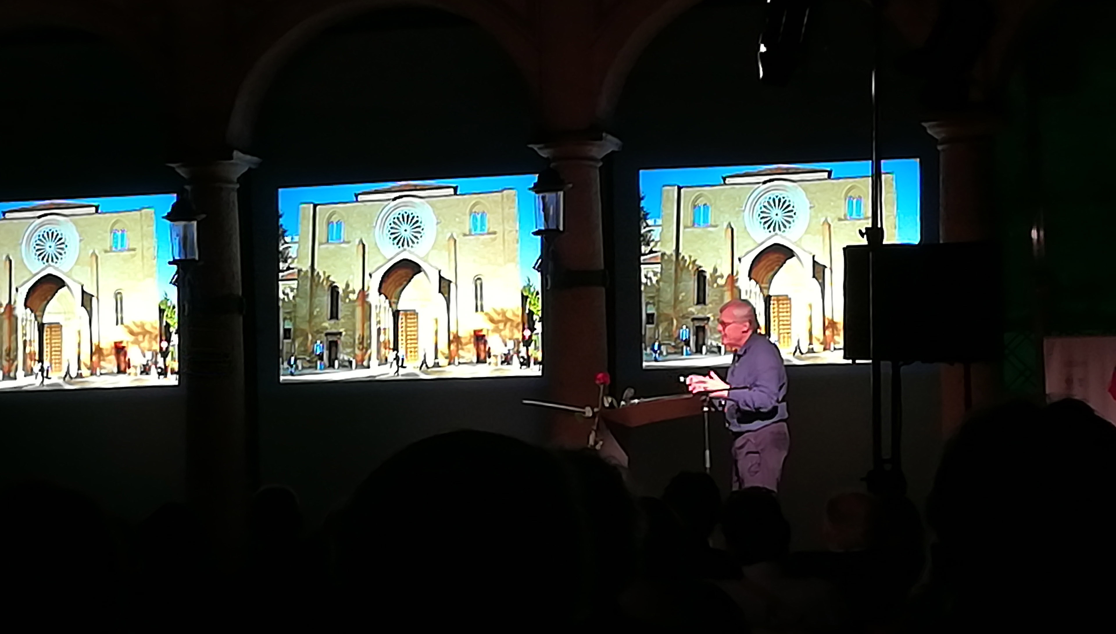 Sgarbi in Casalpusterlengo during the lection I tesori di Lodi, Codogno e Casalpusterlengo.